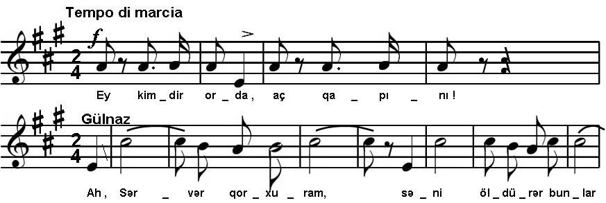 Song from the "If not that one, then this one" comedy of Uzeyir Hajibeyov